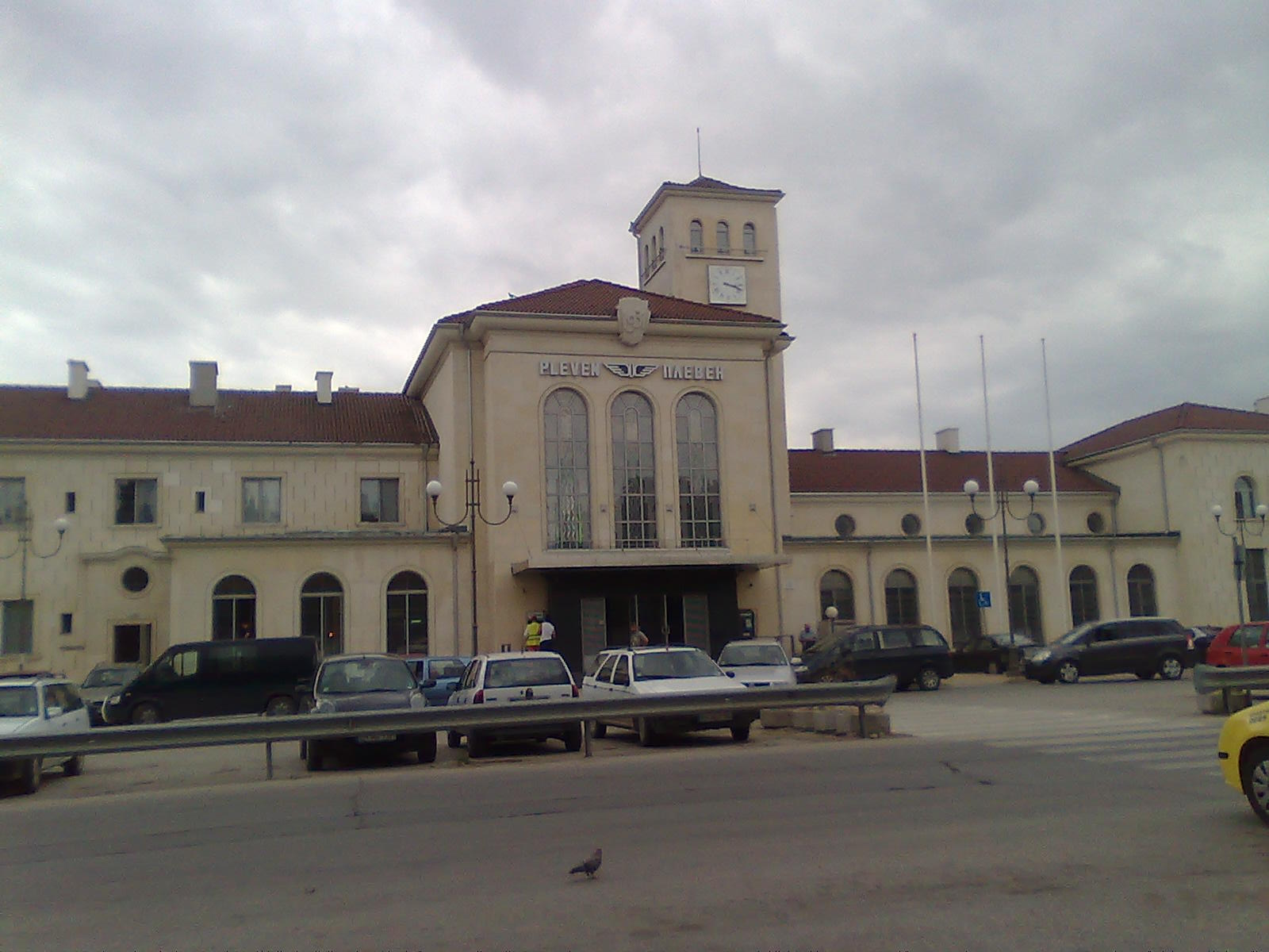 The train station in Pleven